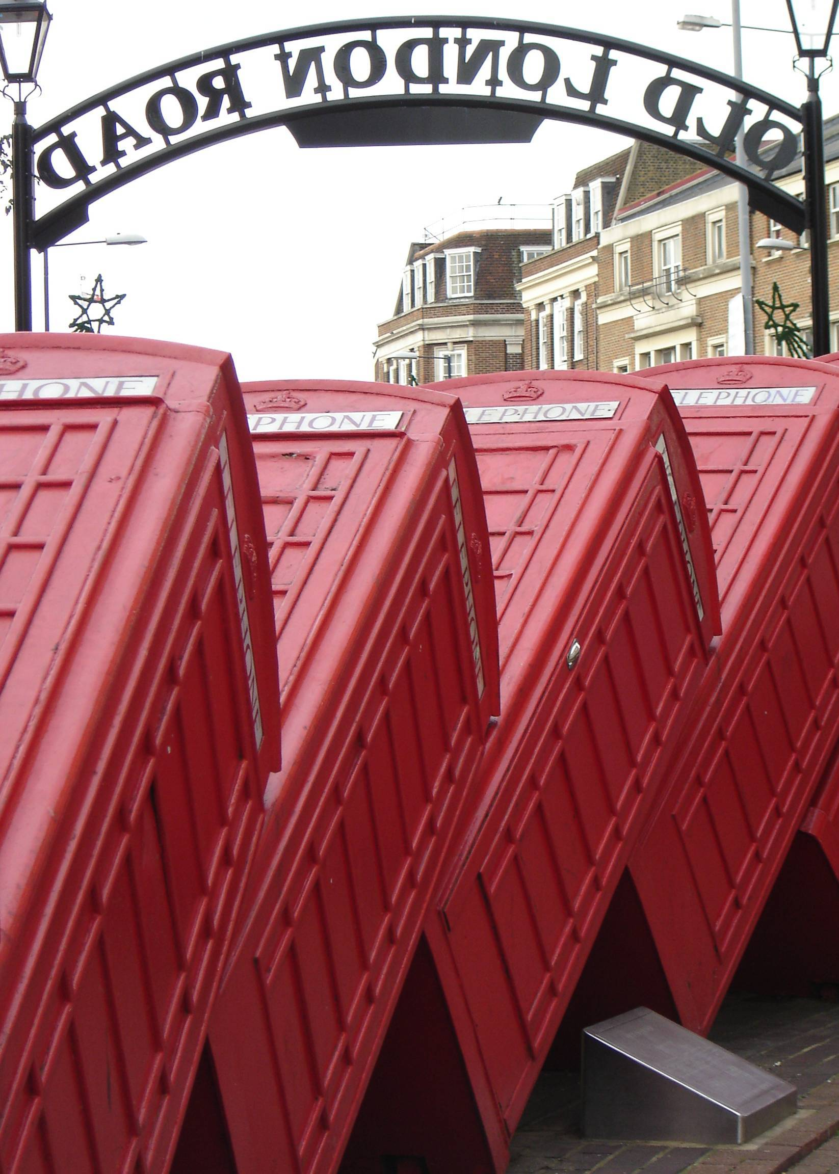 Public Sculpture "Out of Order" in Kingston upon Thames.